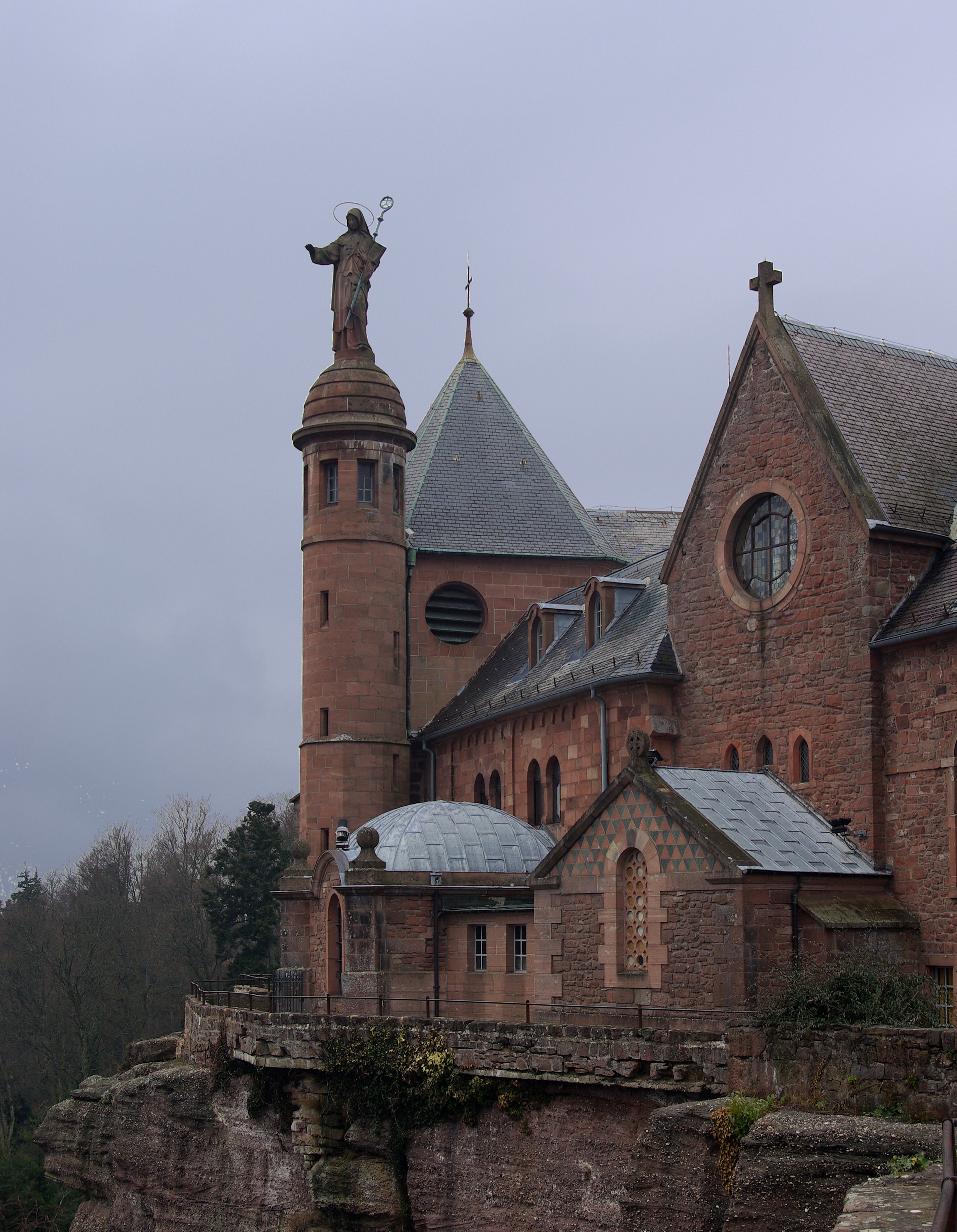 Mont Sainte-Odile